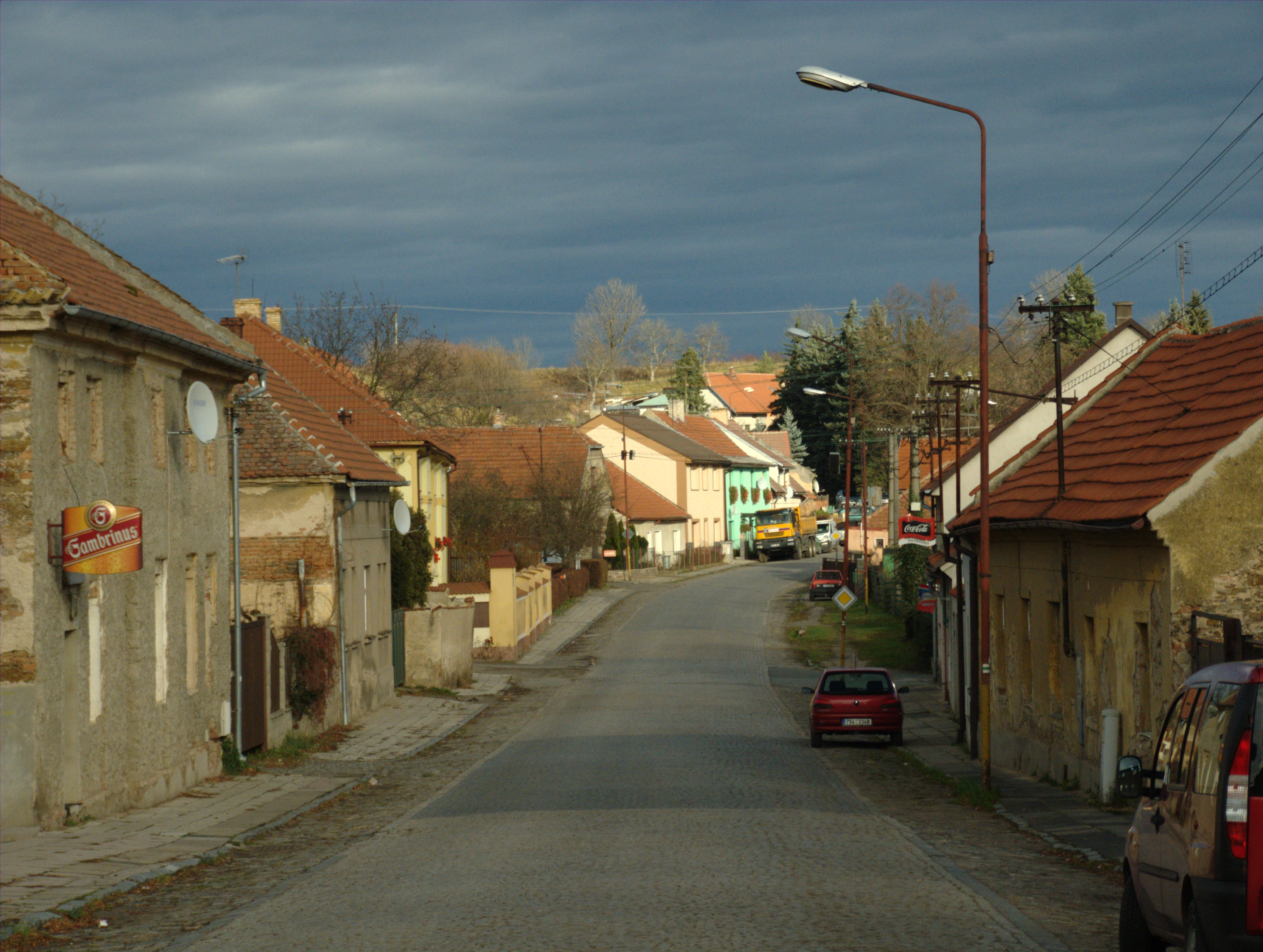 Main road in Chotutice, Central Bohemian Region, CZ This photograph was taken within the scope of the third year of the 'Czech Municipalities Photographs' grant.